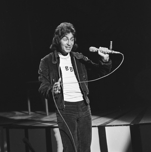 Barry Blue, rop/rock program 'Popzien' on Dutch television